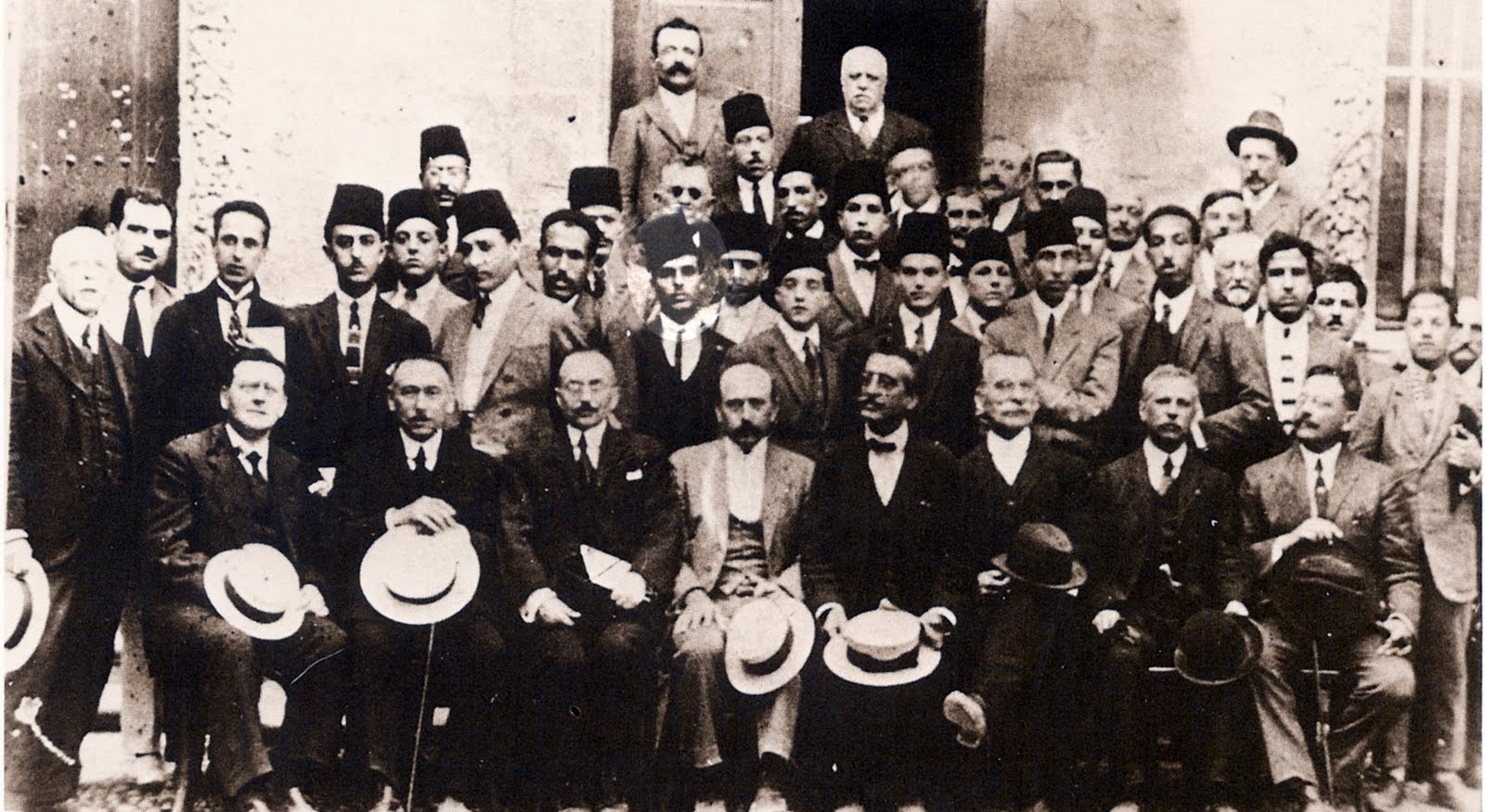 The first president of Tunisia: Habib Bourguiba with his classmates in a school picture in 1924 as an undergraduate.